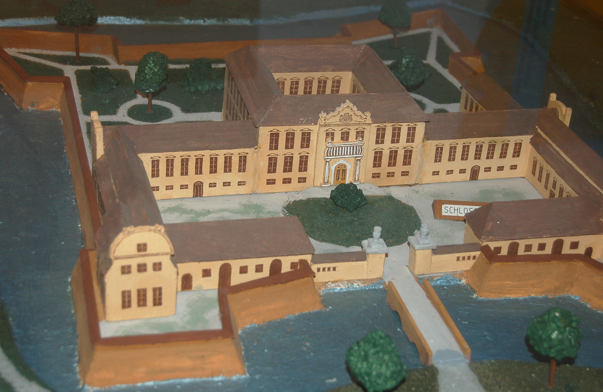 Wilfersdorf Manor at about 1800. Partial view of a panoramic model on exhibition in the manor.